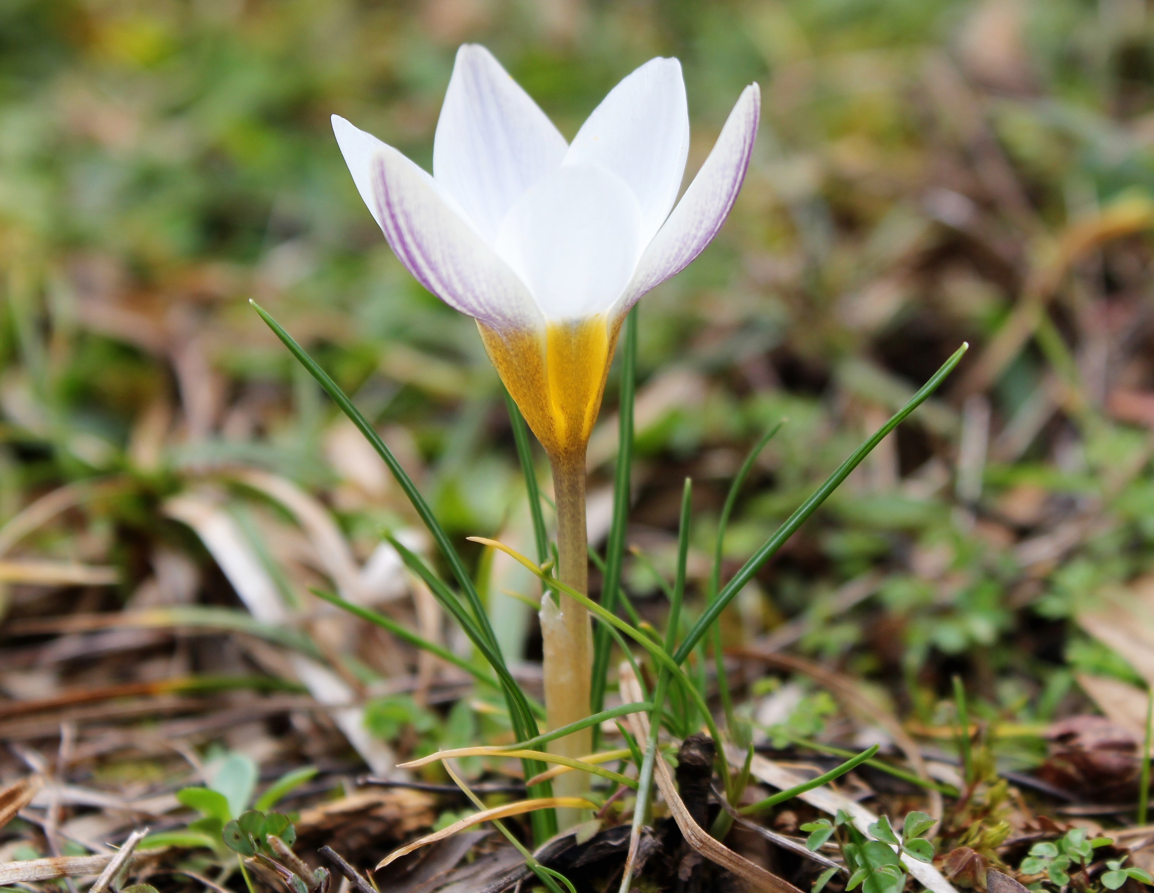 Crocus bifloriformis general